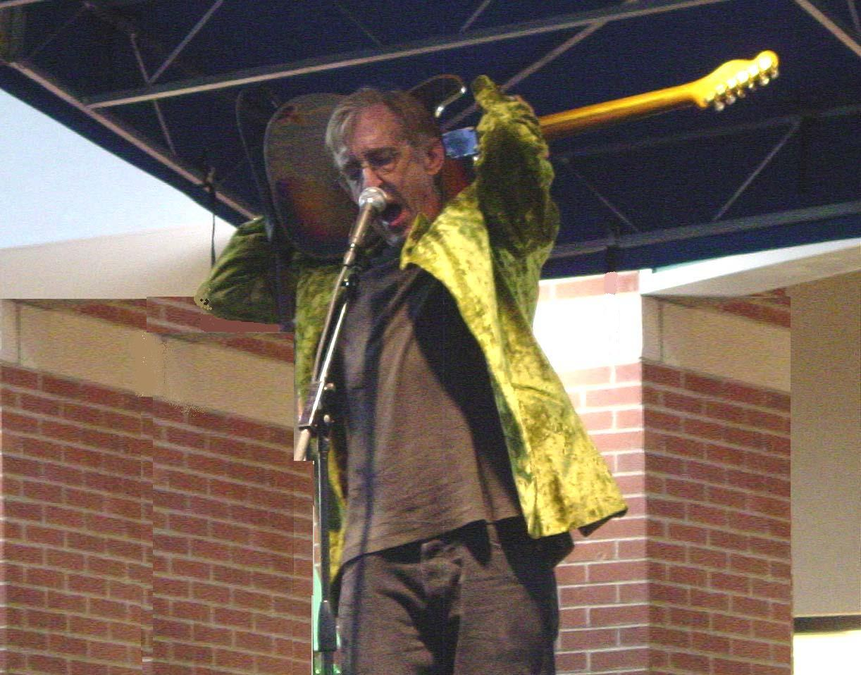 source - David Thrower